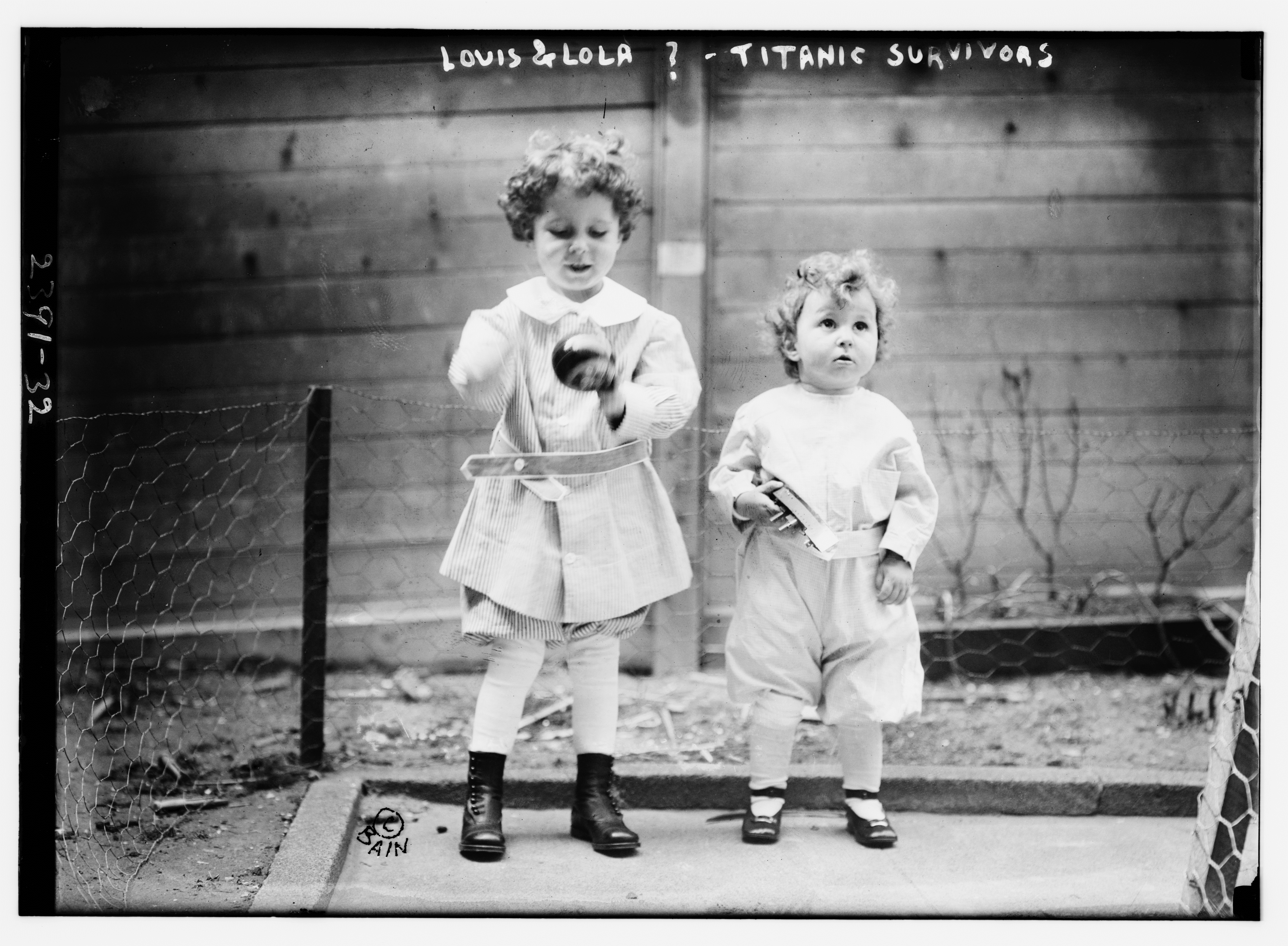 Photo taken before the 'orphans' of the Titanic were correctly identified and returned to their mother. The boys are French brothers Michel (age 4) and Edmond Navratil (age 2). To board the ship, their father assumed the name Louis Hoffman and used their nicknames, Lolo and Mamon. Their father died in the disaster of the RMS TITANIC, which struck an iceberg in April 1912 and sank, killing more than 1,500 people.